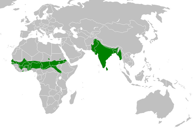 Rose ringed parakeet range with national borders added